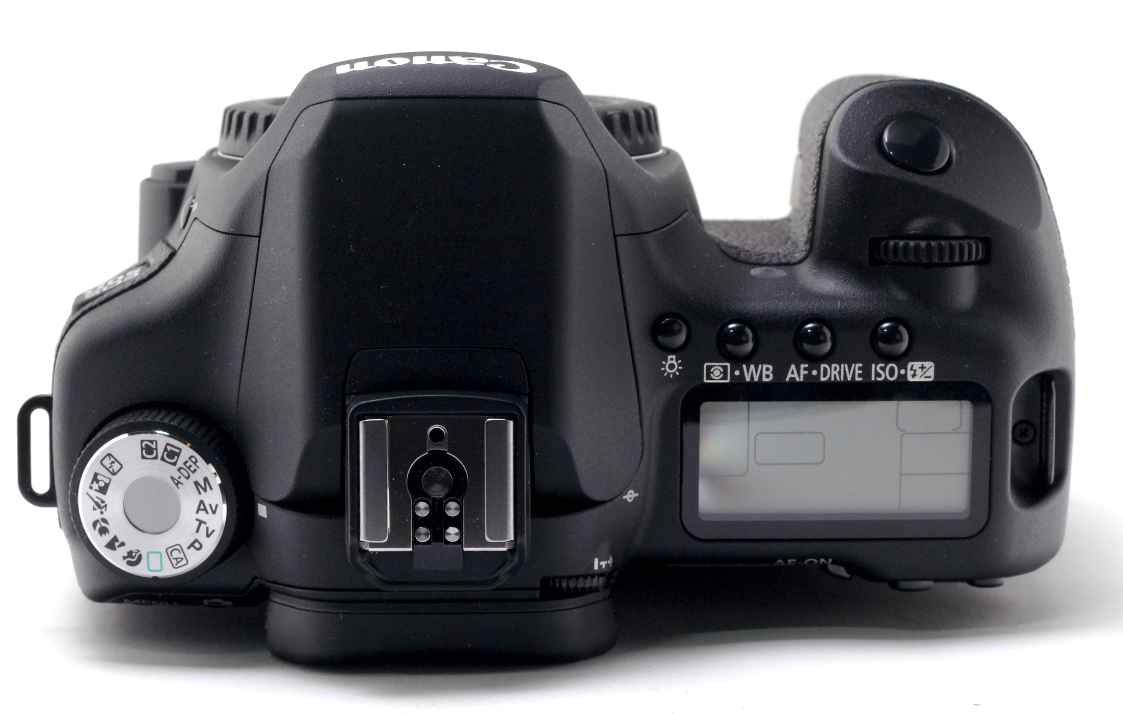 Photo of the Canon EOS 50D Digital, showing top buttons and flash hot-shoe.